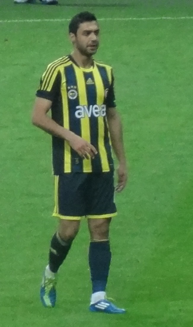 Bekir vs Galatasaray